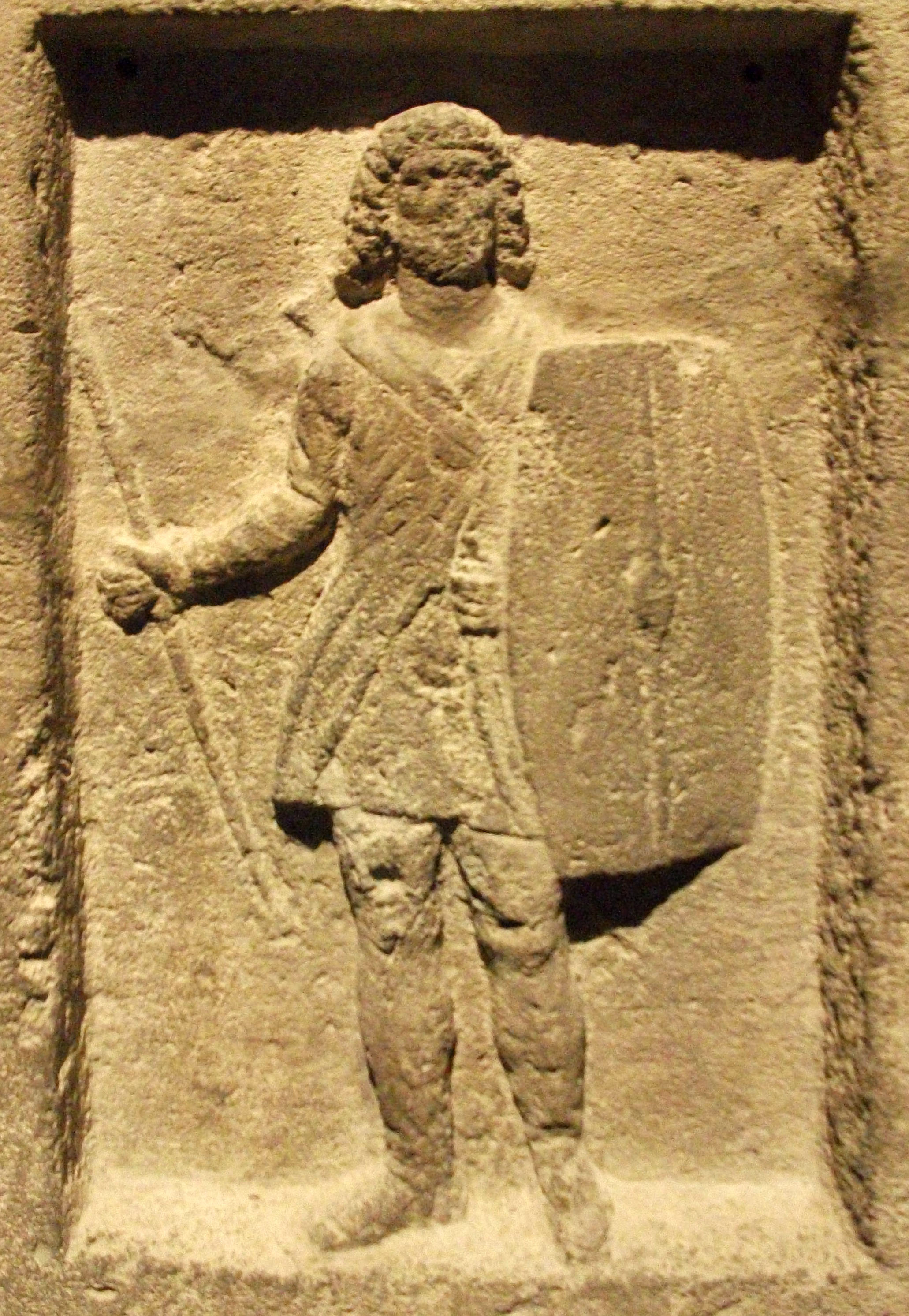 Grave stele of Staphilos, son of Glaukias, from the Bosporan Kingdom. It dates to the 2nd century CE. It depicts a Bosporan soldier, with long hair, and Scythian costume.